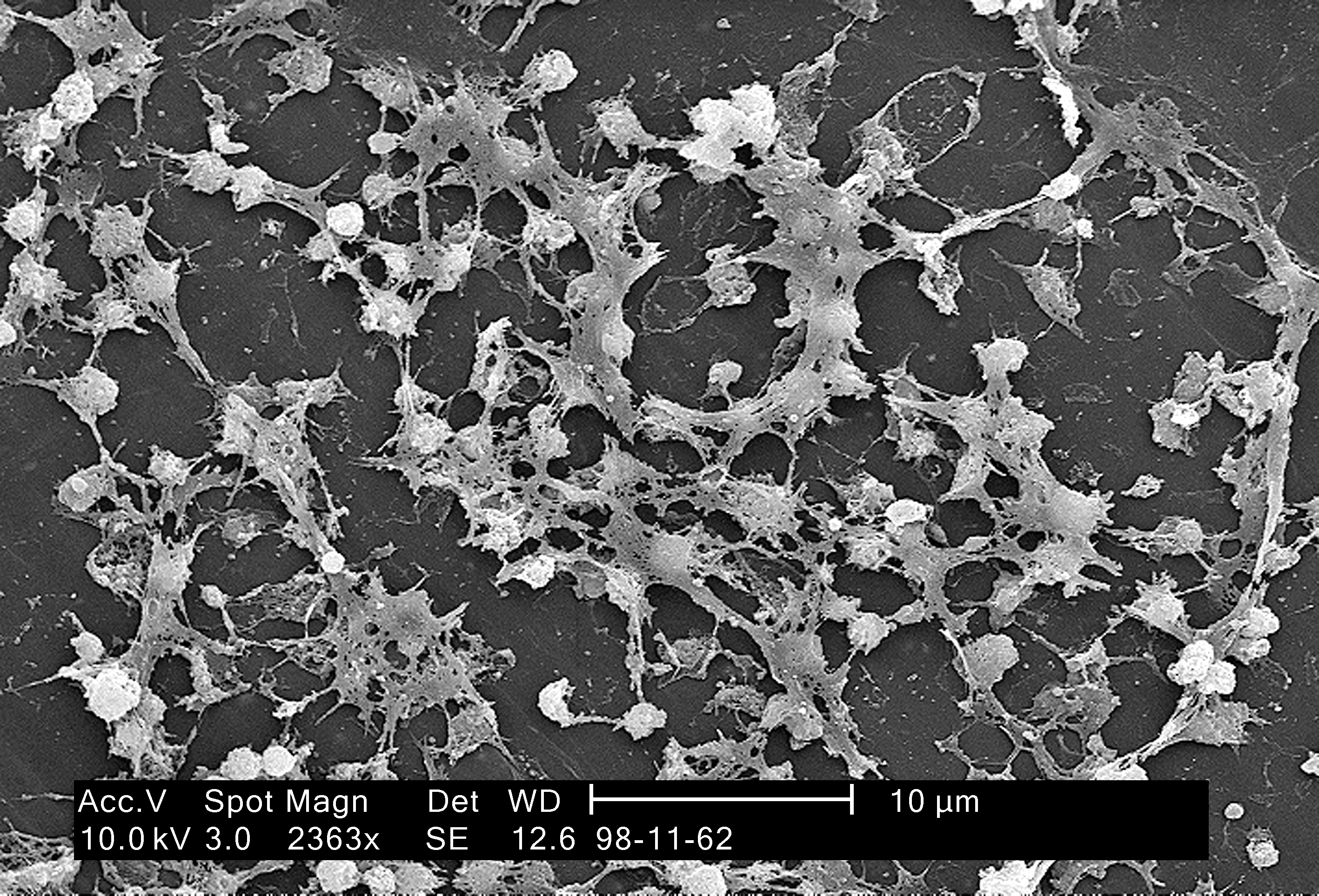 This electron micrograph depicted large numbers of Staphylococcus aureus bacteria, which were fond on the luminal surface of an indwelling catheter. Of importance is the sticky-looking substance woven between the round cocci bacteria, which was composed of polysaccharides, and is known as “biofilm”. This biofilm has been found to protect the bacteria that secrete the substance from attacks by antimicrobial agents such as antibiotics; Magnified 2363x. S. aureus, often referred to simply as "staph," are bacteria commonly carried on the skin, or in the nose of healthy people. Approximately 25% to 30% of the population is colonized, i.e., when bacteria are present, but not causing an infection, in the nose with staph bacteria. Sometimes, staph can cause an infection. Staph bacteria are one of the most common causes of skin infections in the United States. Most of these skin infections are minor such as pimples and boils, and can be treated without antibiotics, which are also known as antimicrobials or antibacterials. However, staph bacteria also can cause serious infections such as surgical wound infections, bloodstream infections, and pneumonia. Some staph bacteria are resistant to antibiotics. Methicillin-Resistant Staphylococcus aureus, or MRSA, is a type of staph that is resistant to antibiotics called beta-lactams. Beta-lactam antibiotics include methicillin and other more common antibiotics such as oxacillin, penicillin and amoxicillin. While 25% to 30% of the population is colonized with staph, approximately 1% is colonized with MRSA.